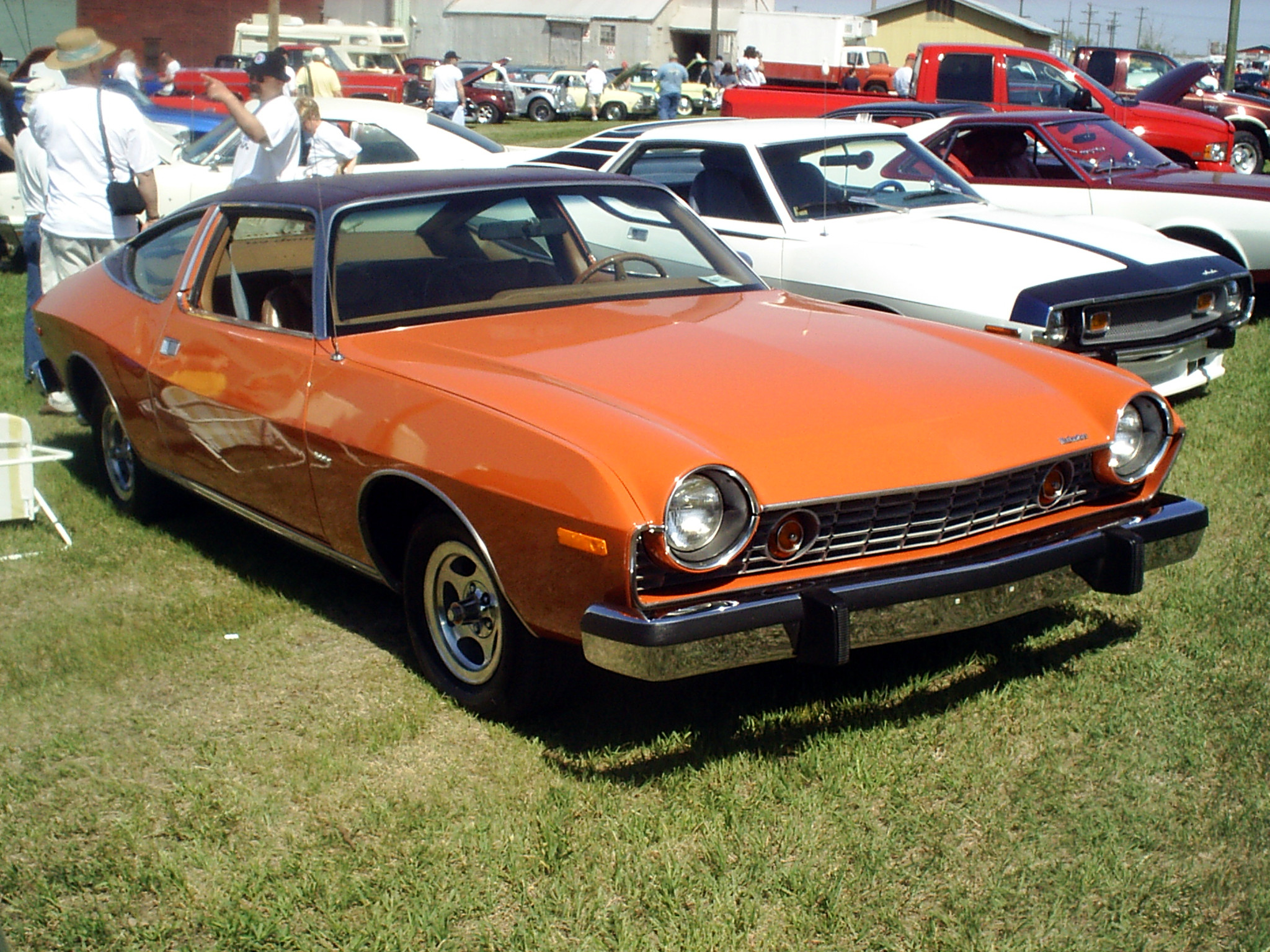 AMC Matador